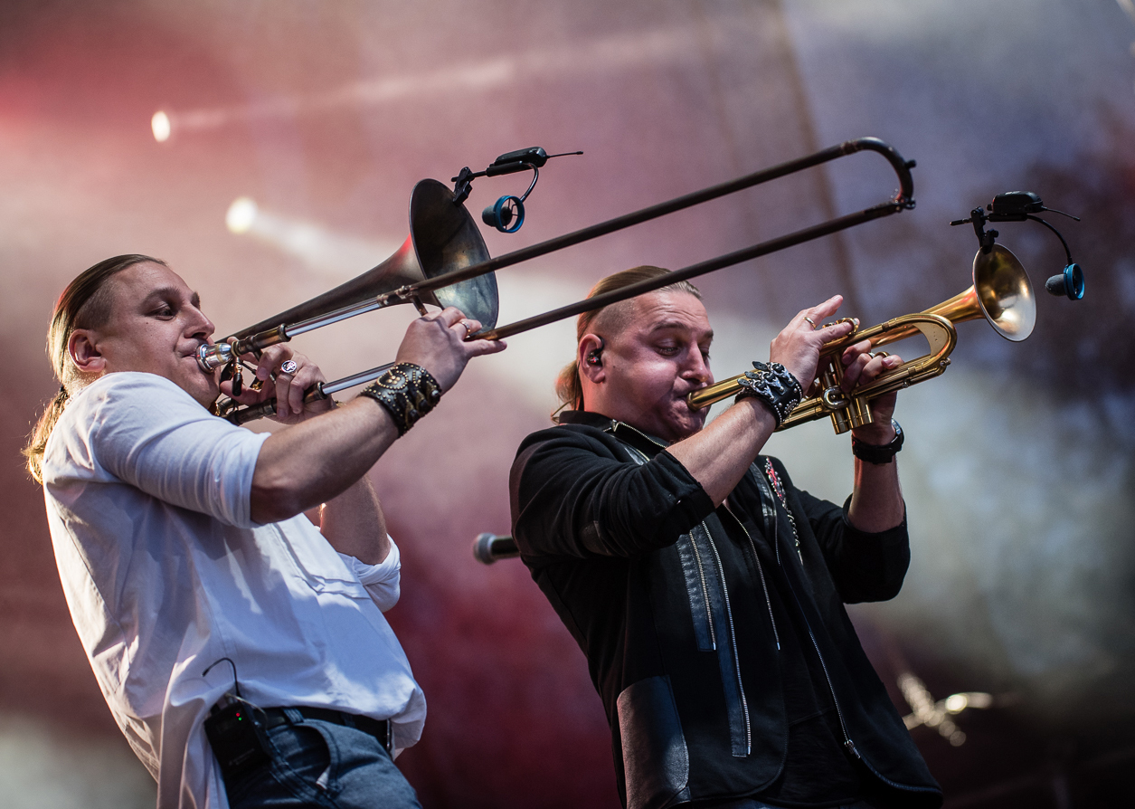 Łukasz and Paweł Golec performing during Kortowiada Festiwal in Olsztyn, 2016